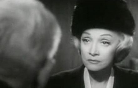 Screenshot of Marlene Dietrich from the film Judgment at Nuremberg (1961)